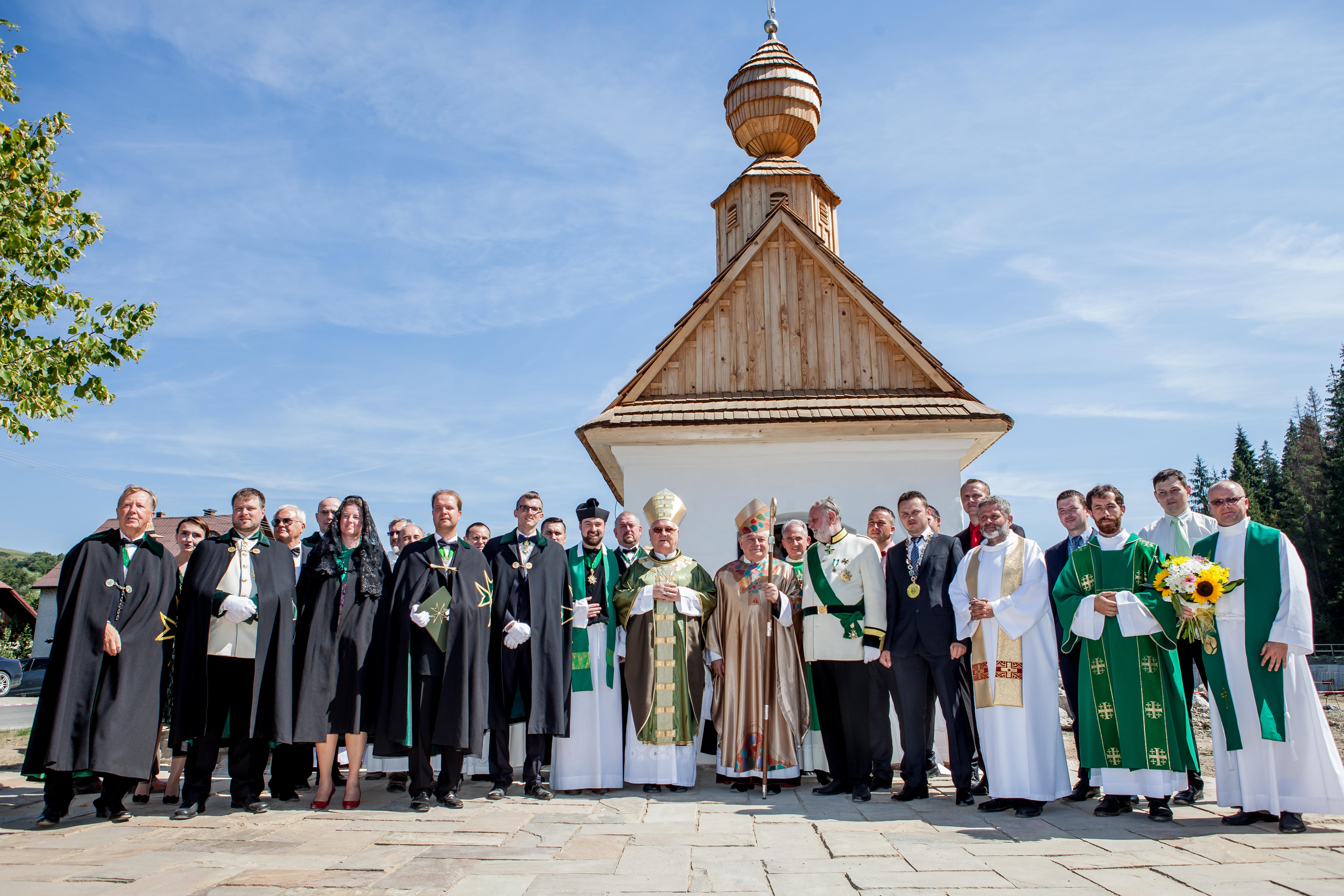 Blessing of the chapel of St. Lazarus of Bethany, Nová Bystrica, Slovakia